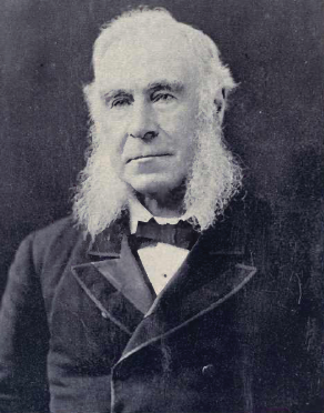 Peter Redpath. Source: The Canadian album : men of Canada; or, Success by example, in religion, patriotism, business, law, medicine, education and agriculture; containing portraits of some of Canada's chief business men, statesmen, farmers, men of the learned professions, and others; also, an authentic sketch of their lives; object lessons for the present generation and examples to posterity (Volume 3) (1891-1896) Creator:Cochrane, William, 1831-1898 Creator:Hopkins, J. Castell (John Castell), 1864-1923 Publisher:Brantford, Ont.: Bradley, Garretson & Co. Date:1891-1896